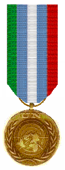 UN Medal for the Mission in Bosnia-Herzogovina - International Police Task Force